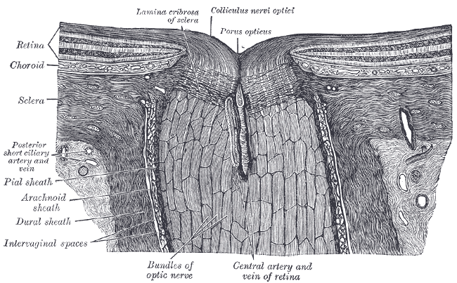 Cross section of the optic nerve head of the human eye.